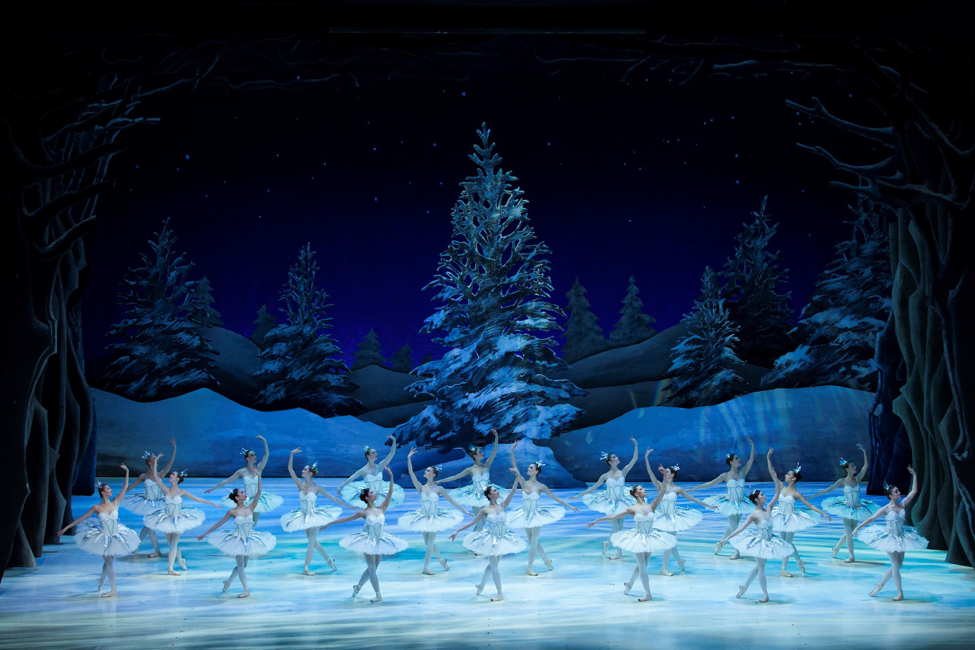 "The Nutcracker and the Mouse King" by Toer van Schayk & Wayne Eagling, Polish National Ballet